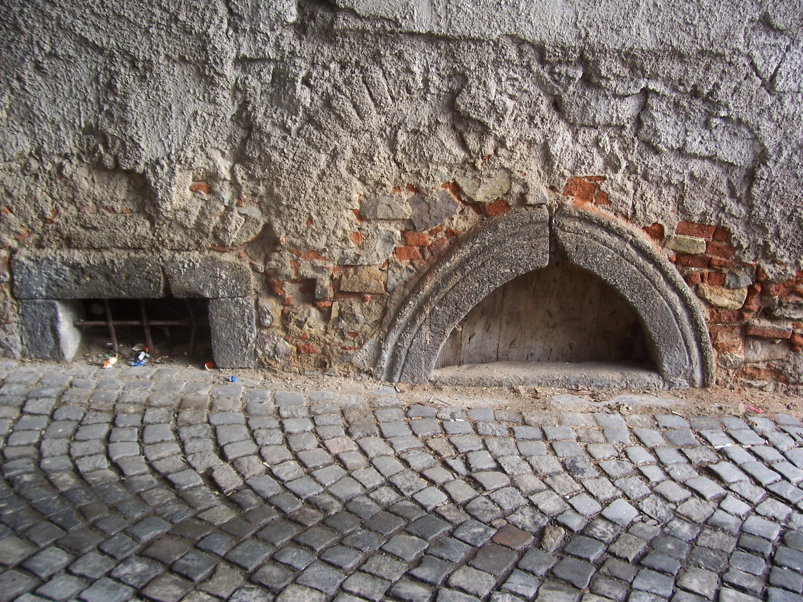 Parts of the former Old synagogue in the town of Milevsko, Písek District, Czech Republic